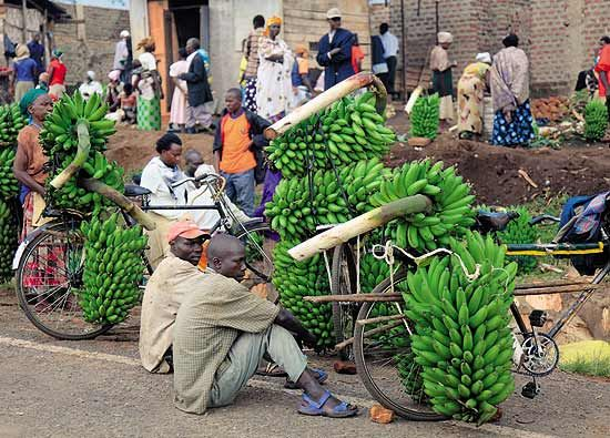 Traders waiting for buyers after harvesting matooke from their gardens and displaying them. (Am not the right full owner of this picture but found it on a website and found it interesting to upload) This is an image of food from Uganda